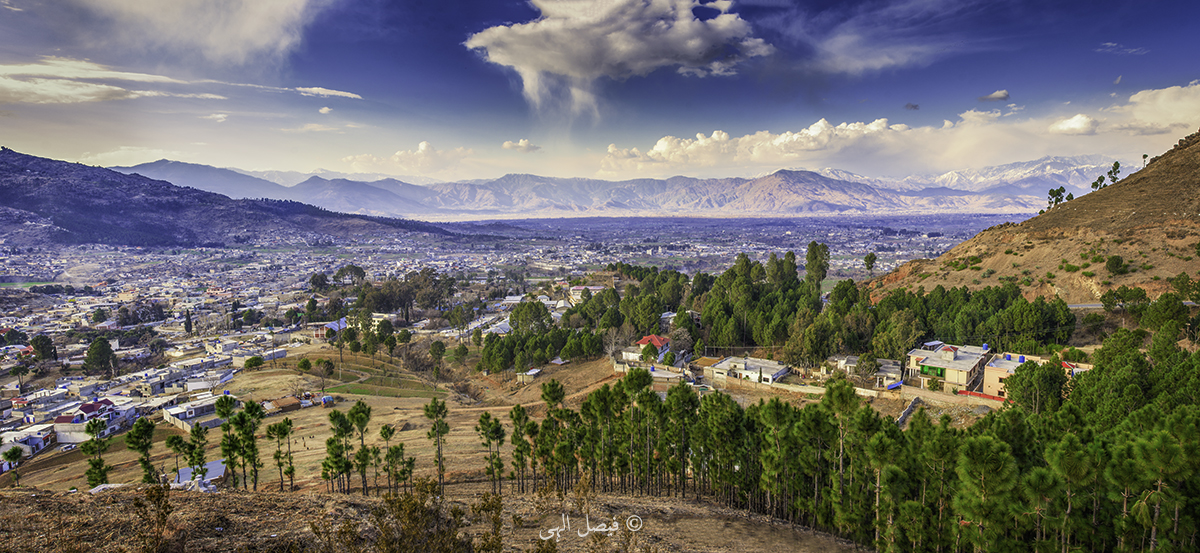 Mansehra city is located in Hazara region of KPK in Pakistan